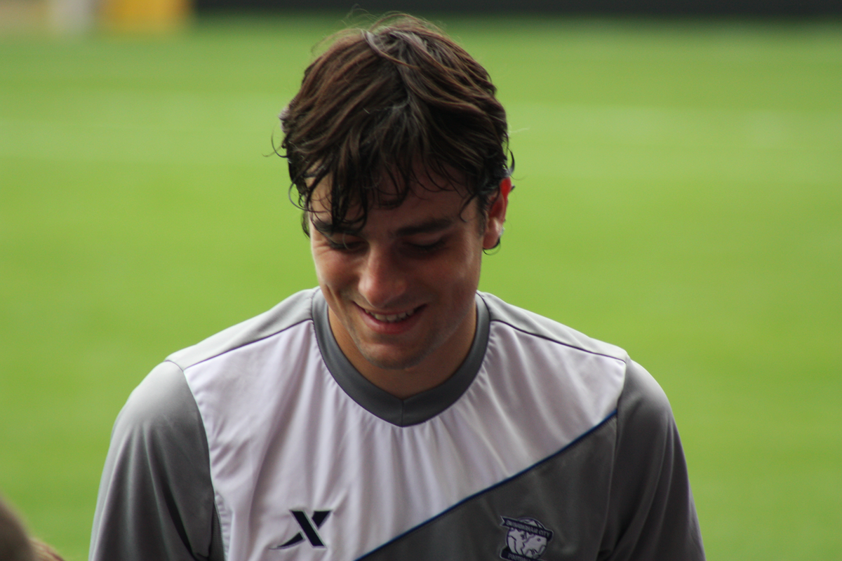 Miguel Marcos Maderam at Birmingham City open training session at St.Andrews' Stadium.